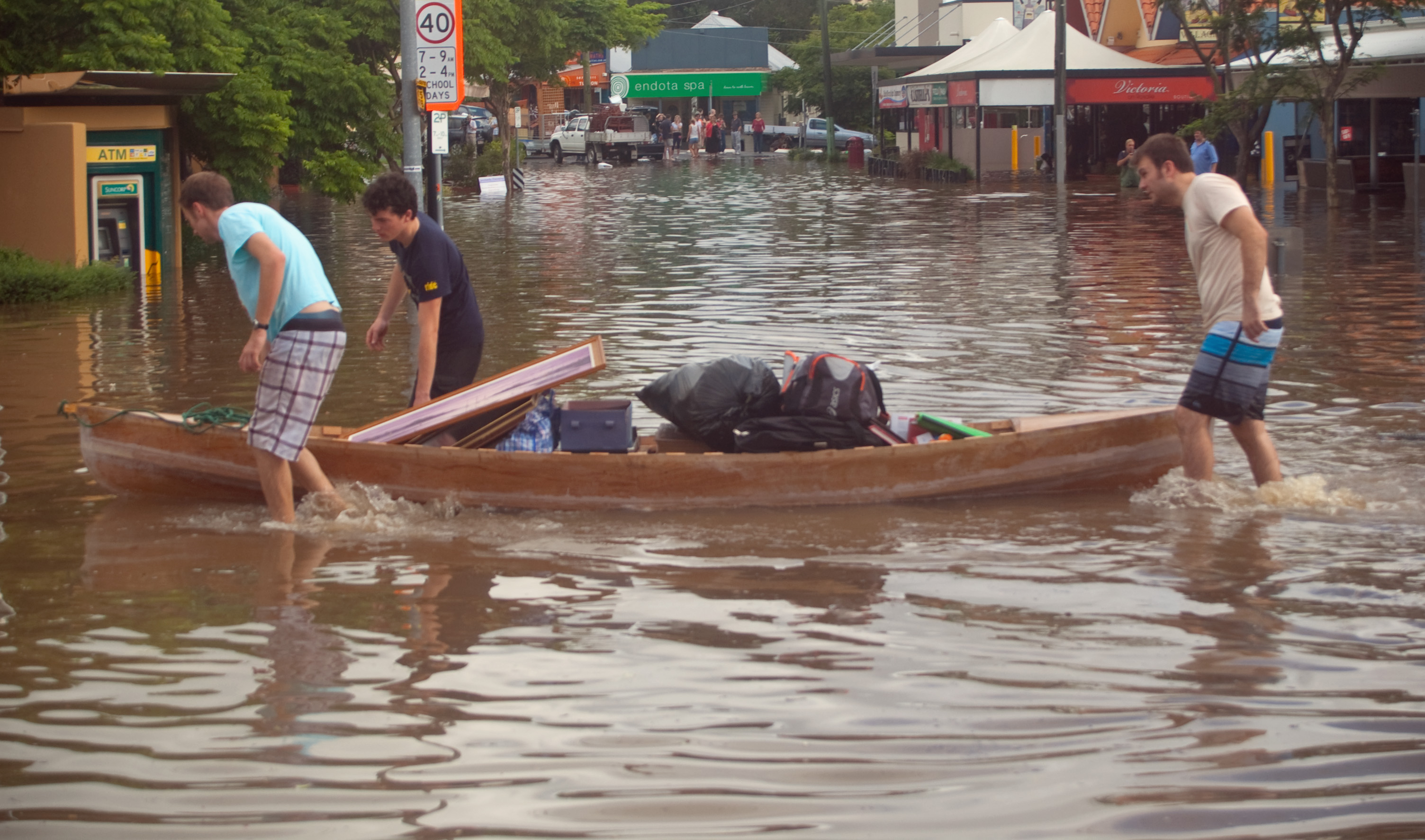 Guys evacuating through Rosalie